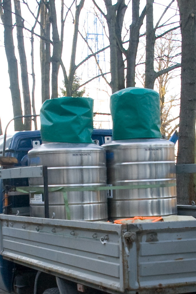 Dewar flasks for liquid heleum (250 l capacity)